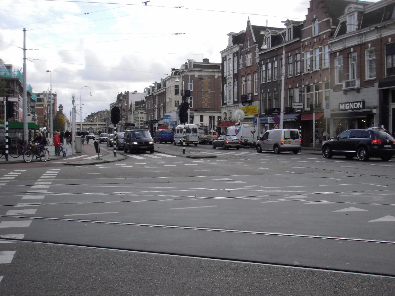 The Linnaeusstraat in 2009. Picture made in November 2009.